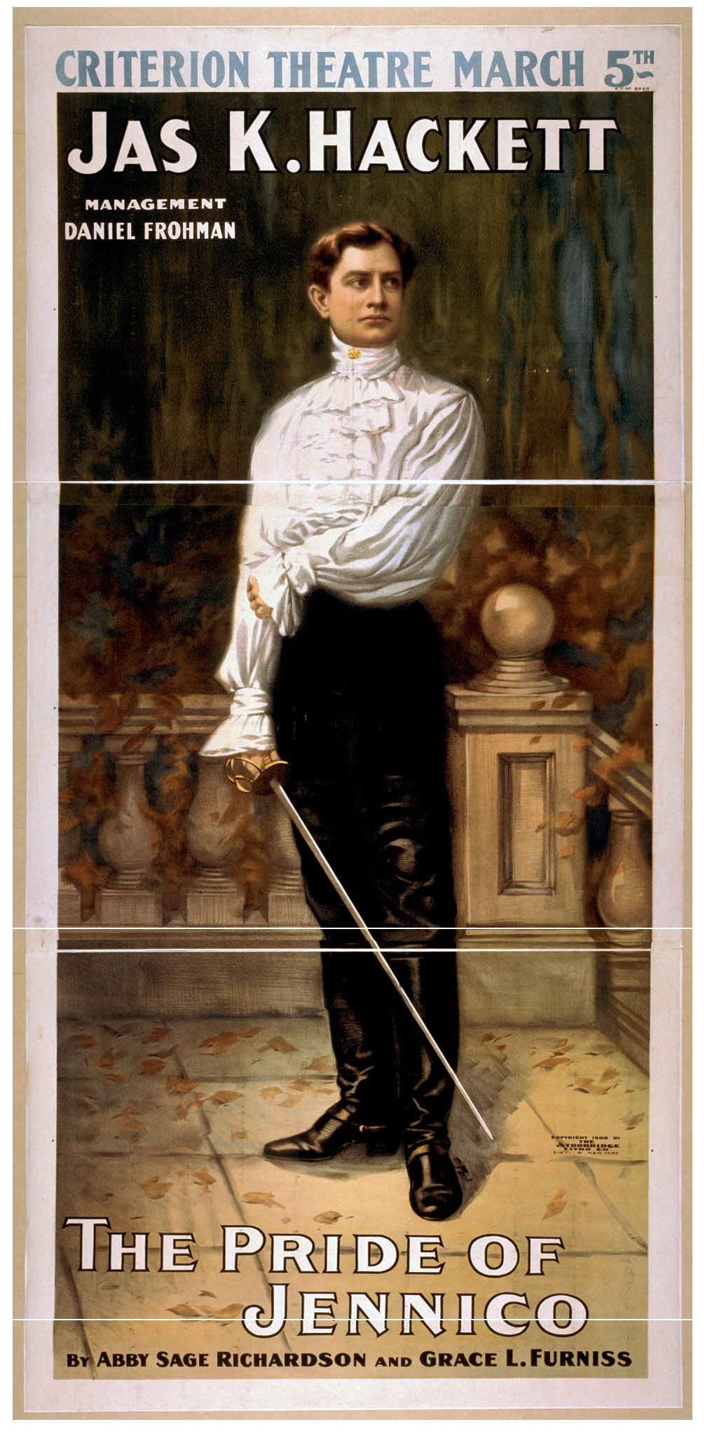 Title: Jas. K. Hackett. The pride of Jennico by Abbey Sage Richardson and Grace L. Furniss. Abstract/medium: 1 print : color lithograph ; sheet 218 x 104 cm. (poster format)